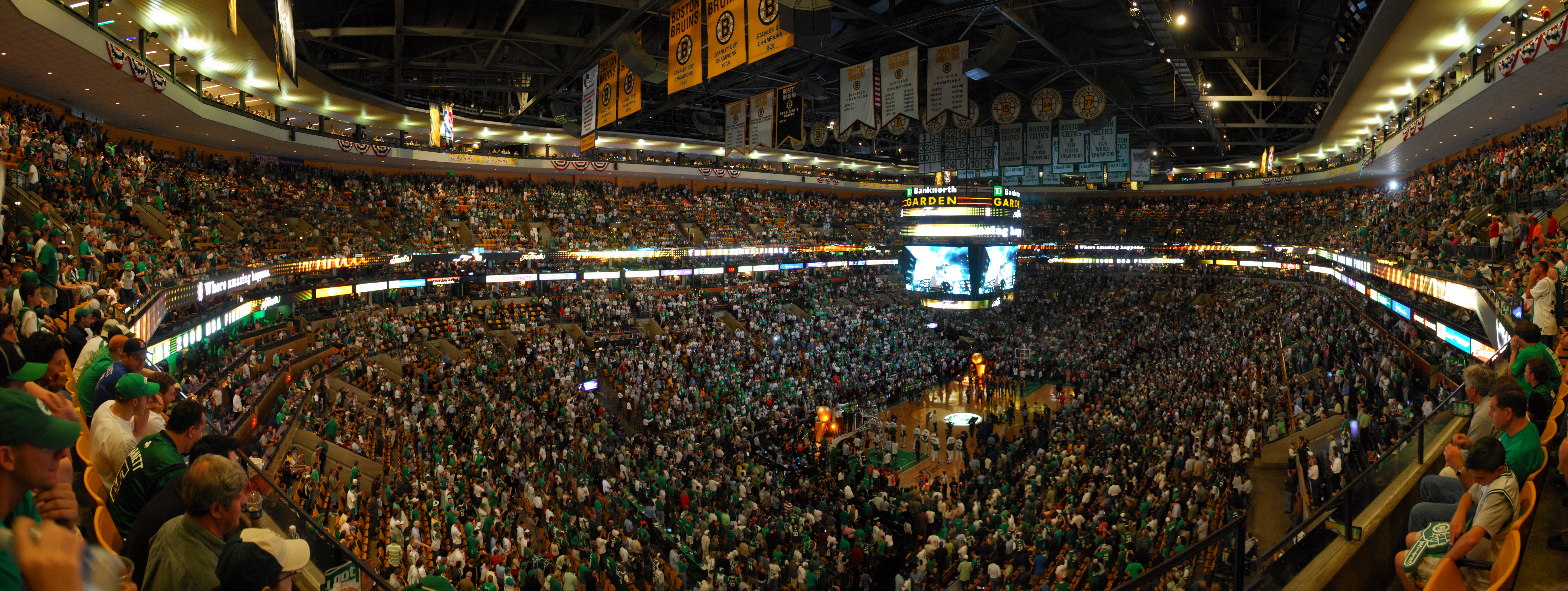 stitched together from 8 parts, about 9000x3400